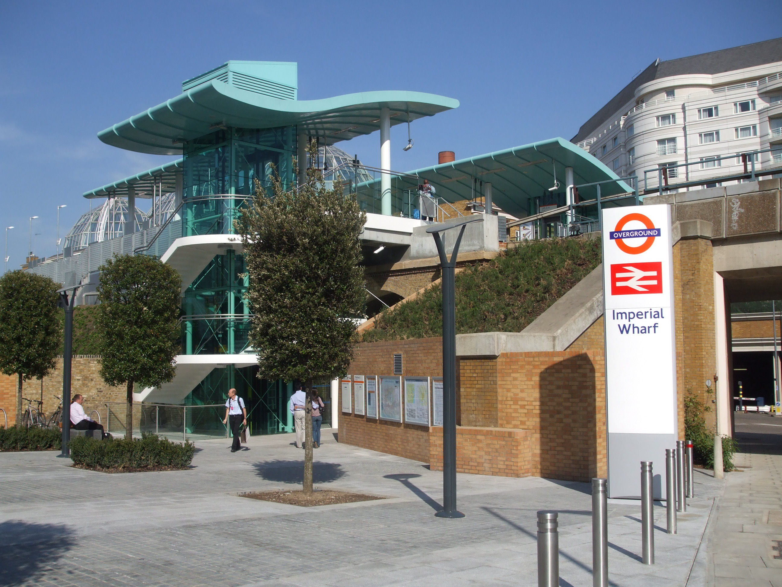 Imperial Wharf station western (northbound side) entrance, on the day of opening.